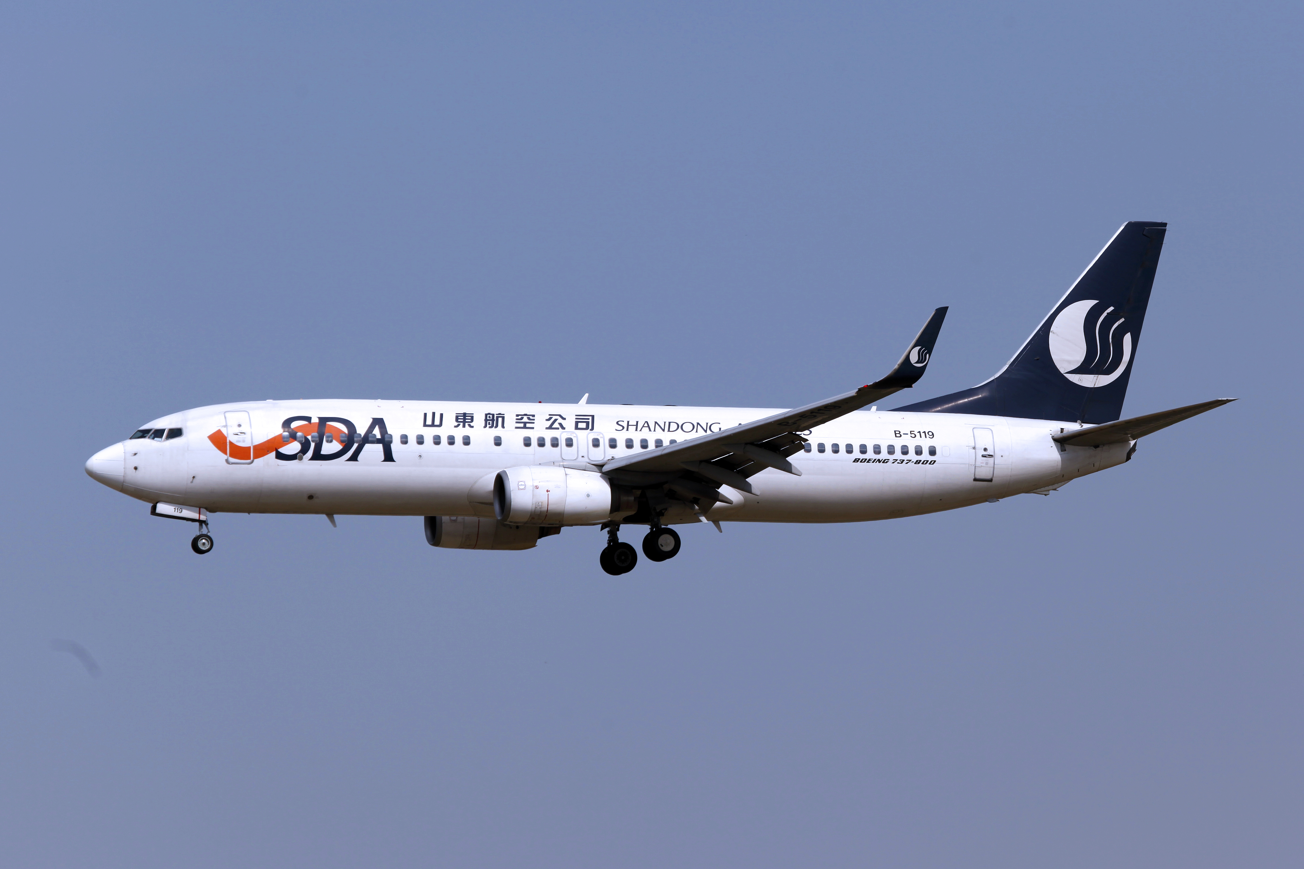 Shandong Airlines Boeing 737-85N(WL) at Beijing Capital International Airport [PEK].